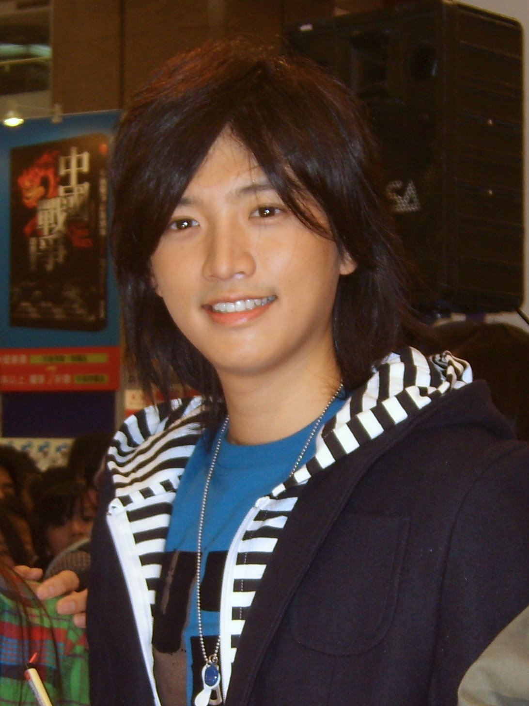 2008 Taipei International Book Exhibition: Figaro Tseng(曾少宗), a vocalist from Taiwan, at a signing event of Taiwanese TV Drama "They Kiss Again" presented by Cité Group Publishing.